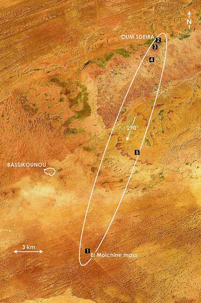 Strewn field / distribution ellipse of the Bassikounou Meteorite Fall, Mauretania 2006